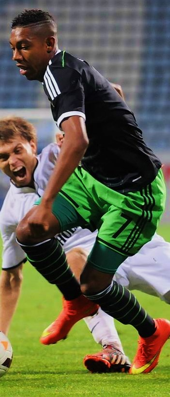 Jean-Paul Boëtius